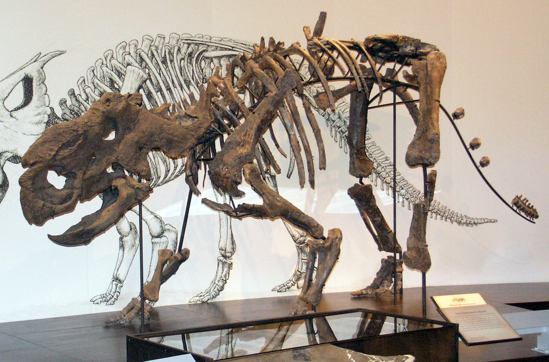 "Pachyrhinosaur" specimen TMP 2002.76.1, Royal Tyrrell Museum of Paleontology, Alberta